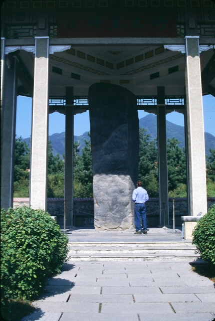 Taken by and permission granted by author, Sept. 2001